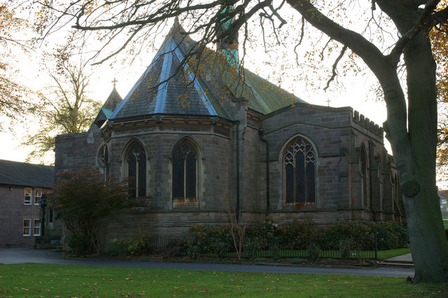 Repton School Chapel The chapel forms part of Repton School.